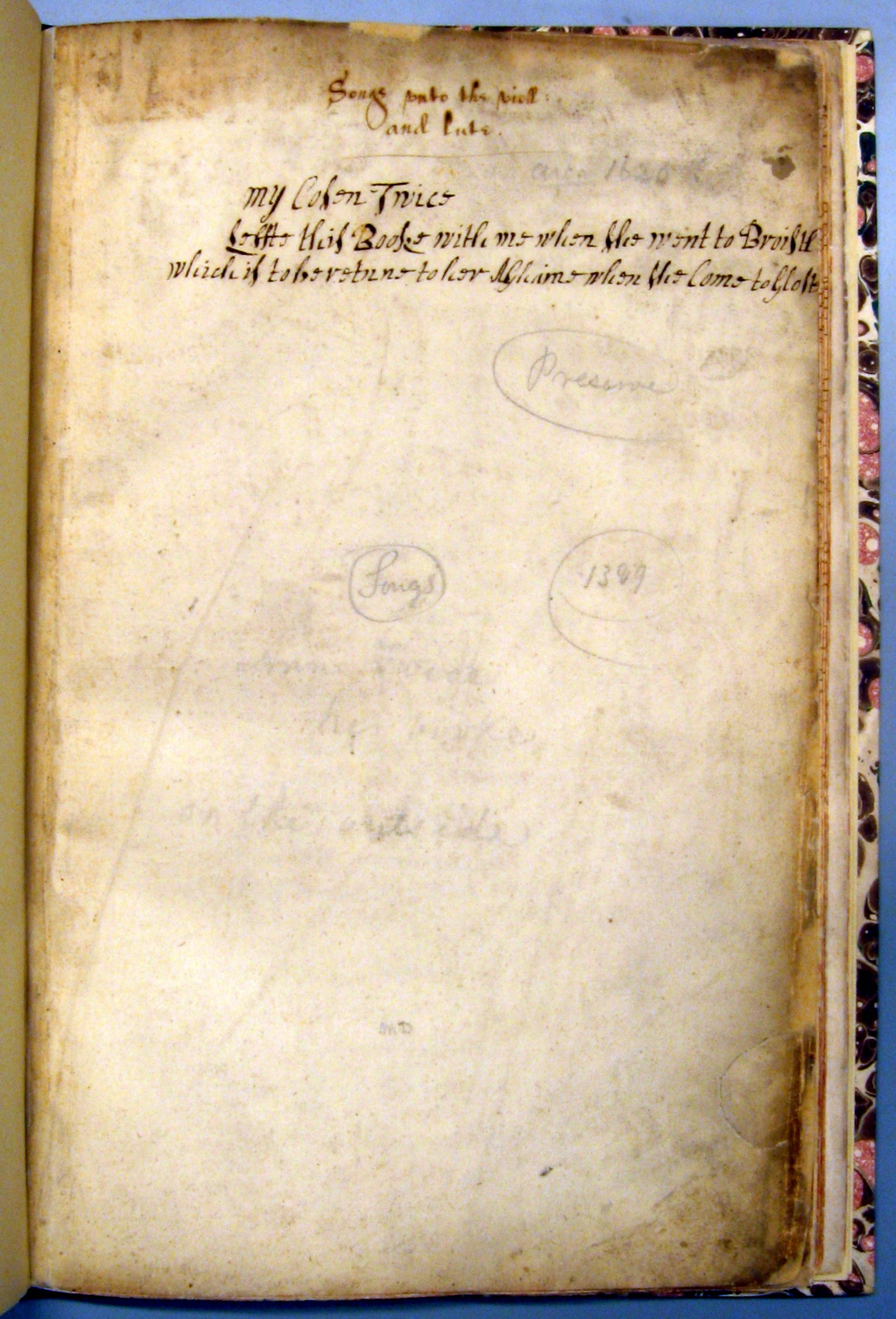 Inscription on the first leaf of Drexel 4175, a music manuscript which is an important source for seventeen-century English song, belonging to the New York Public Library.